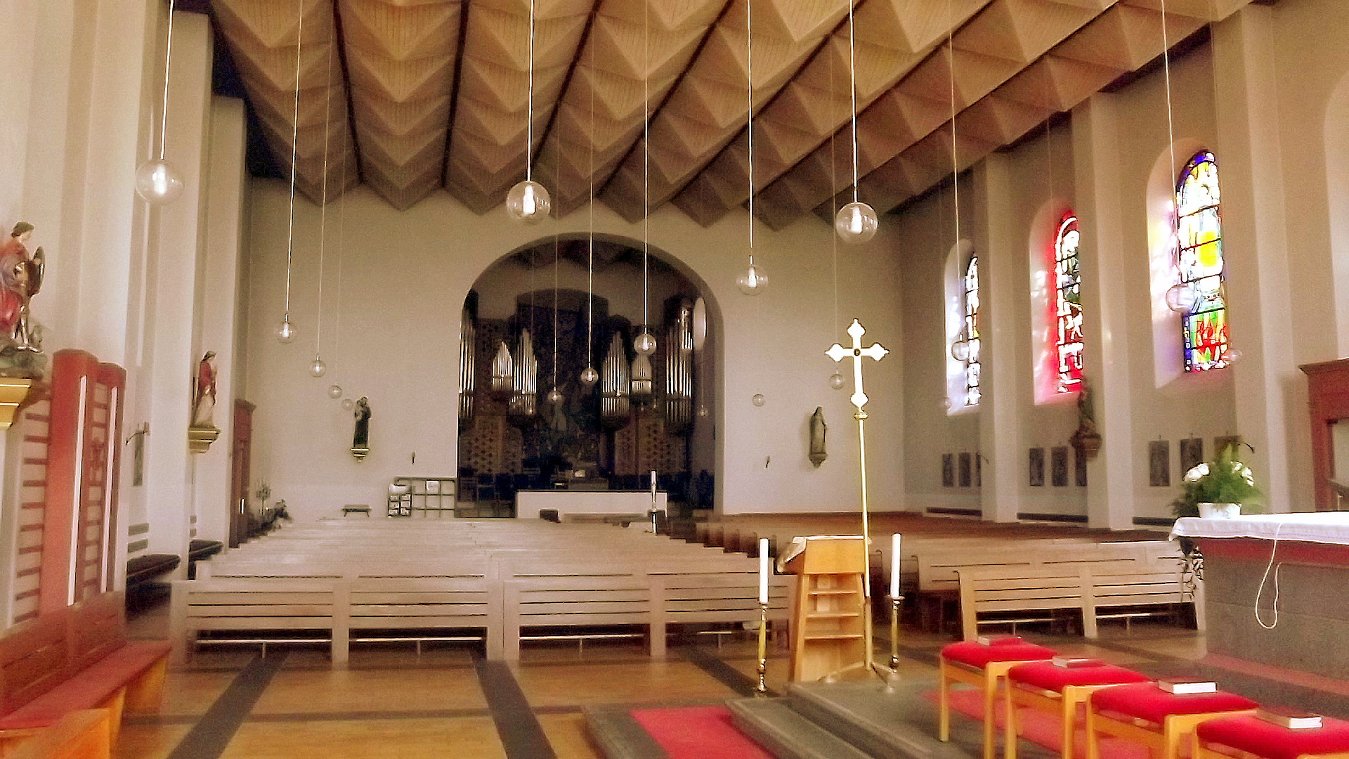 Interior of the roman catholic church in Orscholz, Saarland, Germany